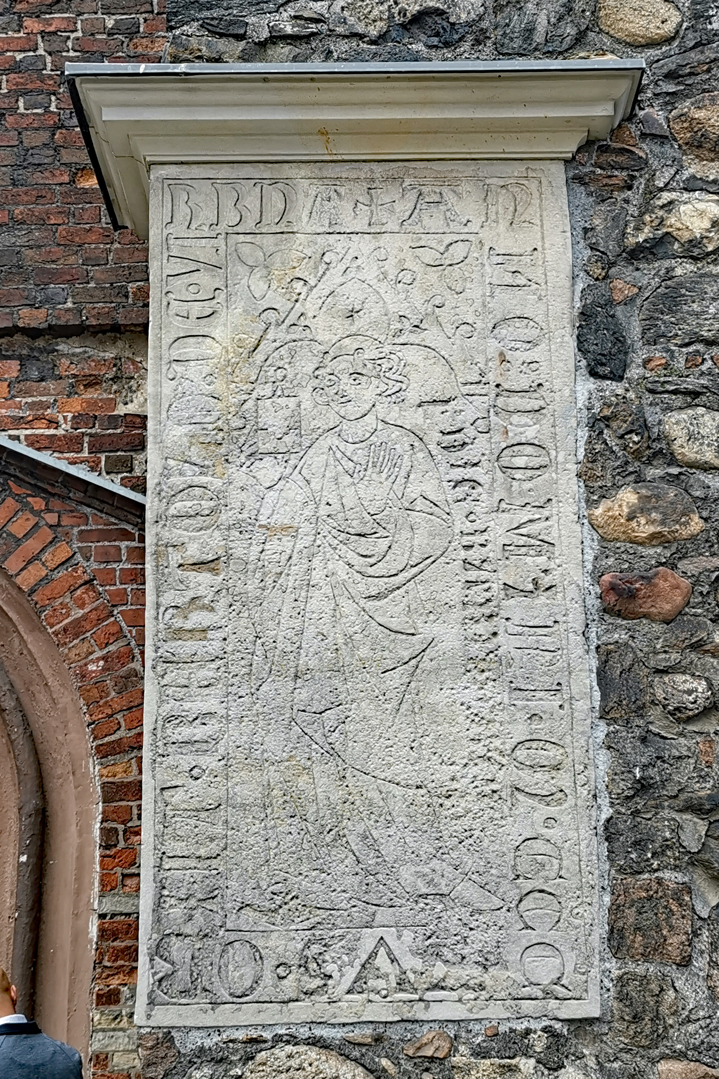 Church of the Assumption iin Szprotawa (Poland)